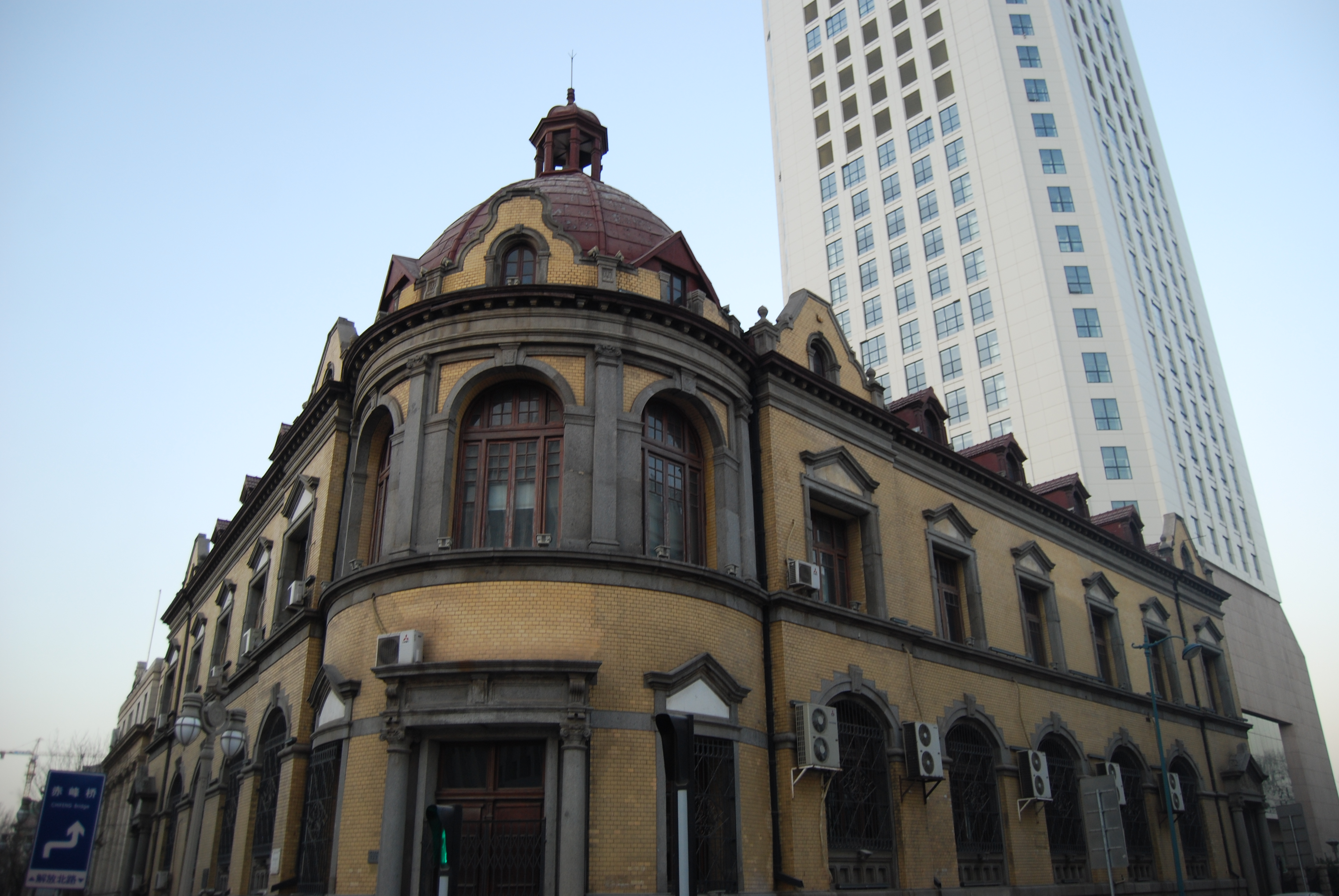 Former Russo Asian Tianjin in Jiefangbei Lu, Heping District, Tianjin